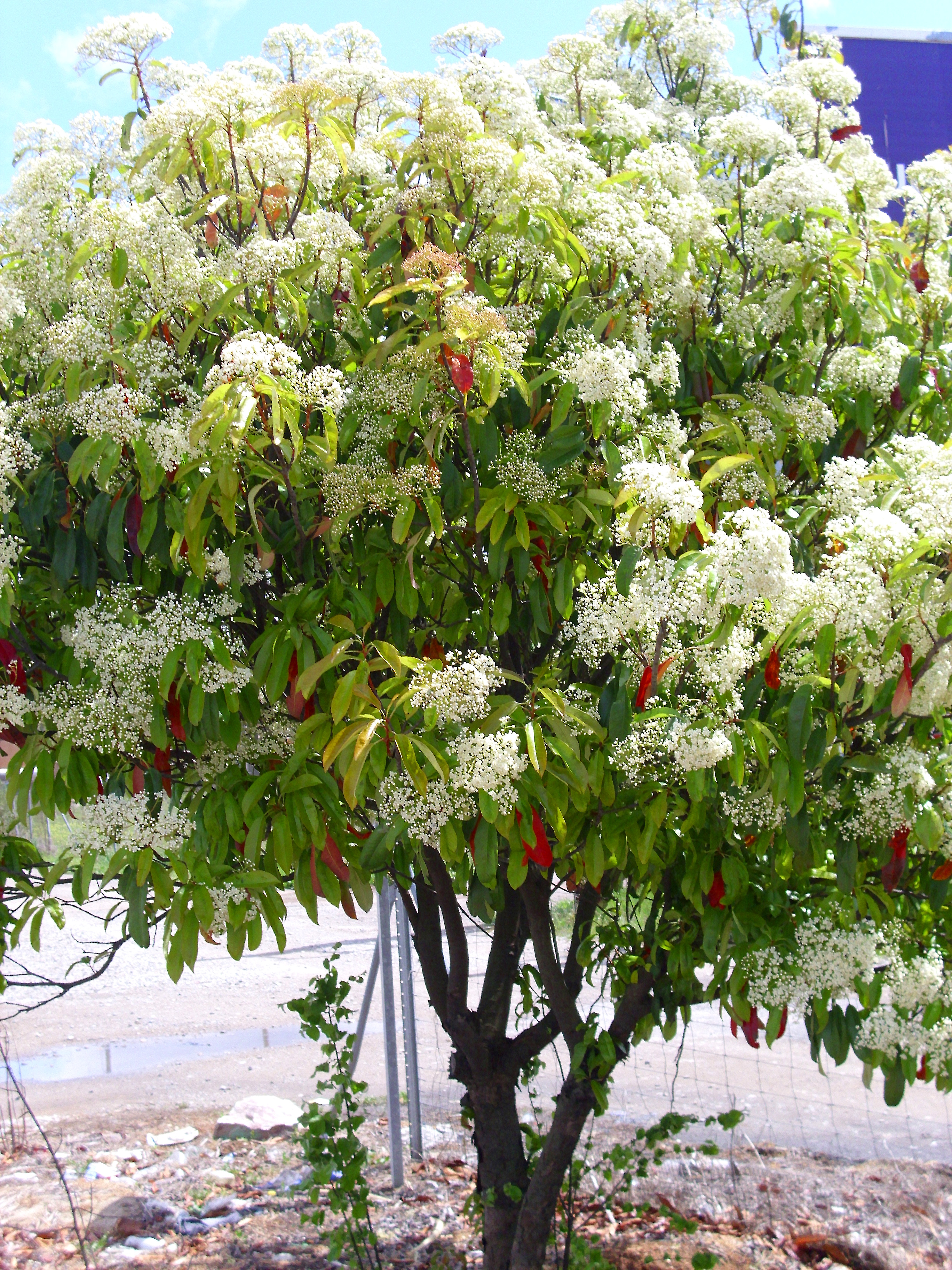 Photinia serratifolia habit Puertollano, Spain.